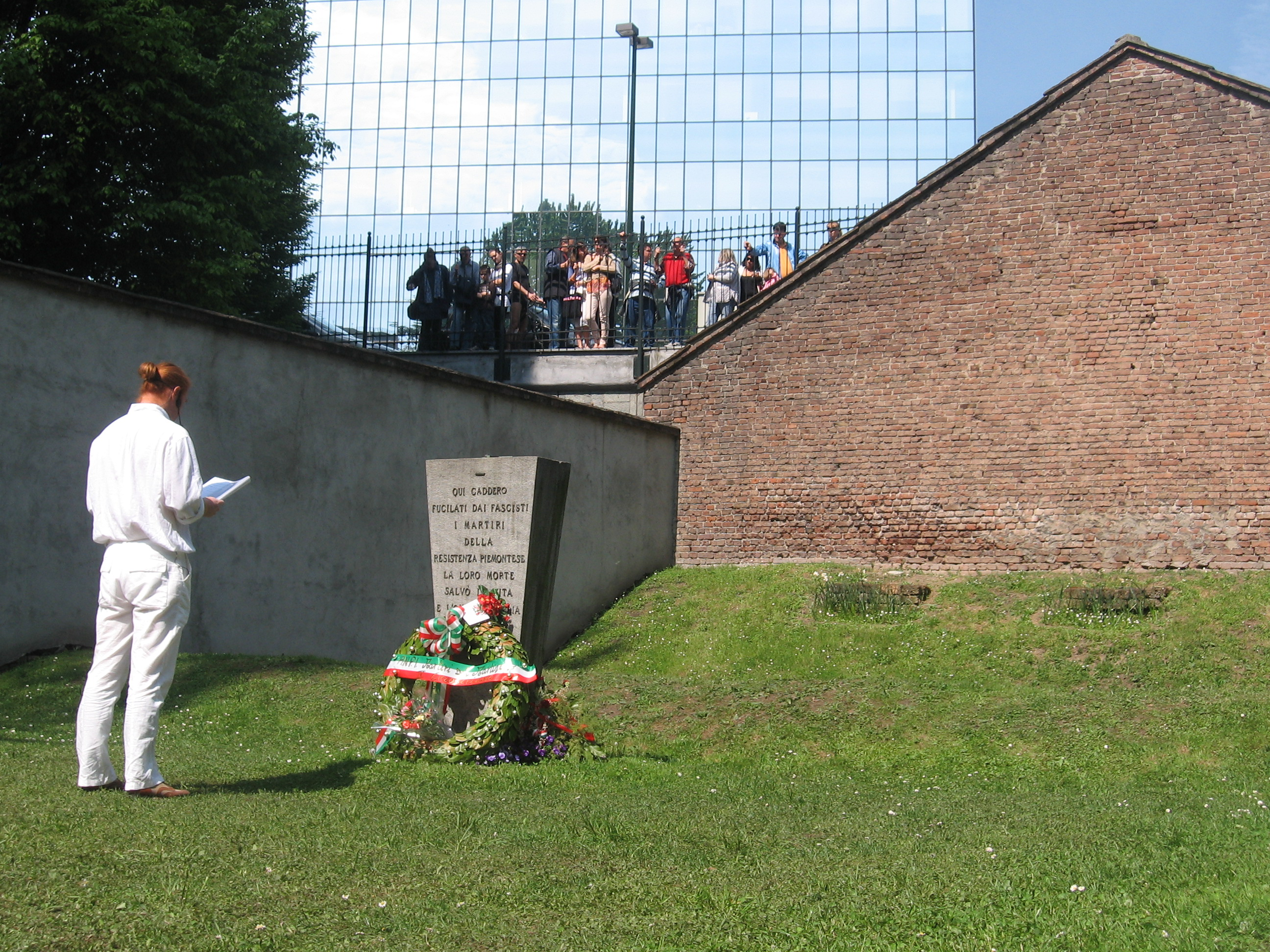 Sacrario del Marinetto (Turin, Italy): performance for the 65th anniversary of italian liberation (by Accademia dei Folli).